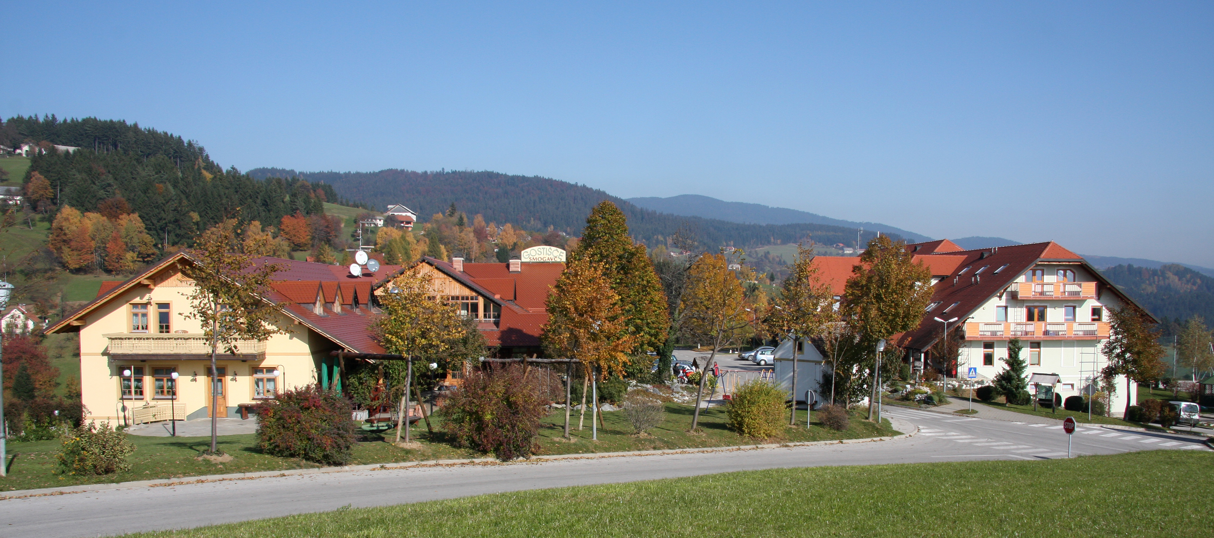 Smogavc restaurant in Gorenje pri Zrečah, Slovenia.